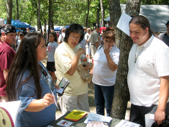 Cherokee people in the arts and crafts booths on the Cherokee Heritage Center grounds at Cherokee National Holiday, Park Hill, Oklahoma, 2006.